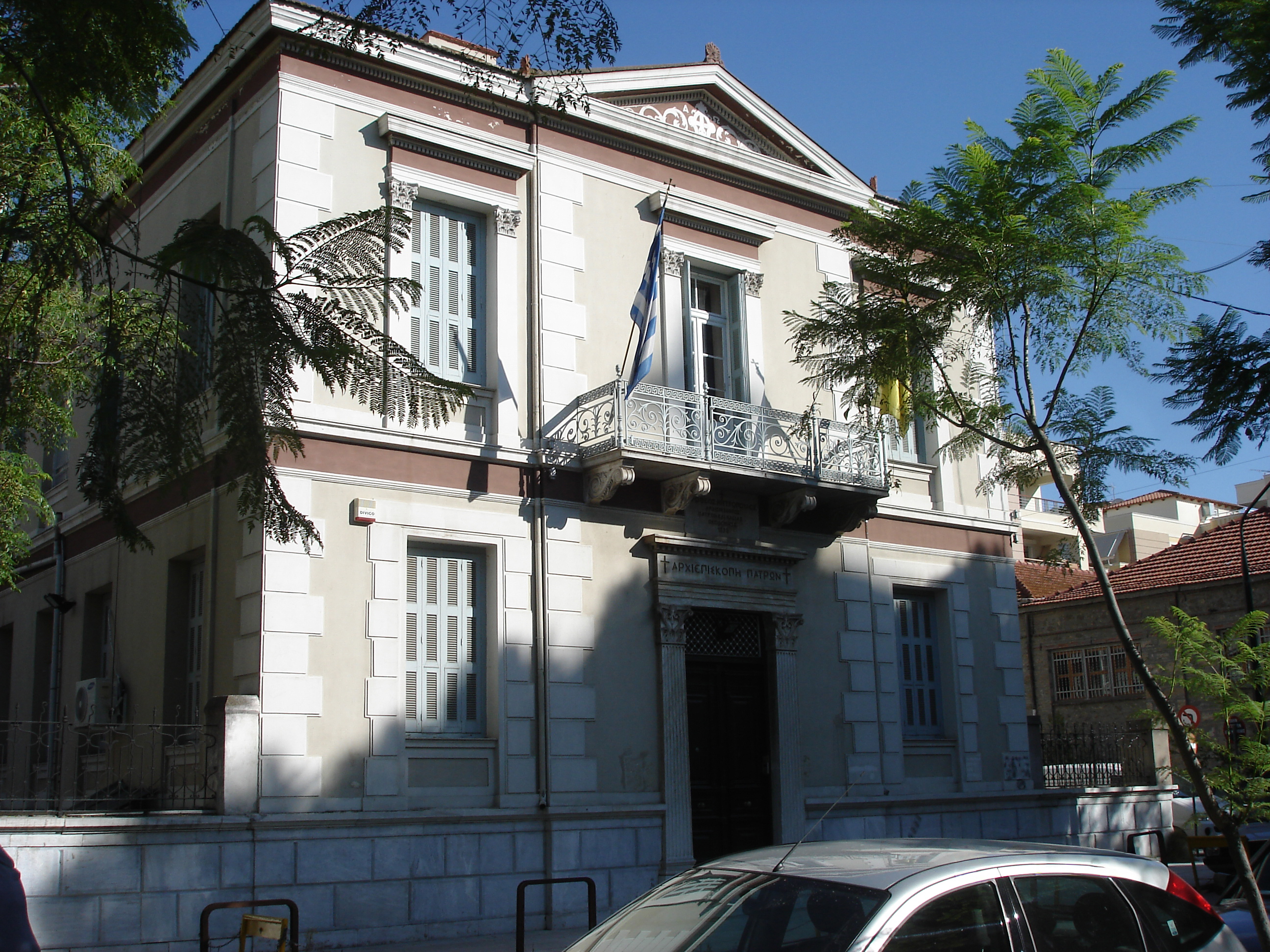 old Bishop's office in Patras's diocese.